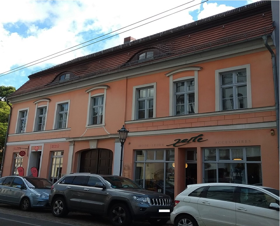 Historic monument Alt-Köpenick 15 in Berlin's Köpenick district in the district of Teptow-Köpenick.